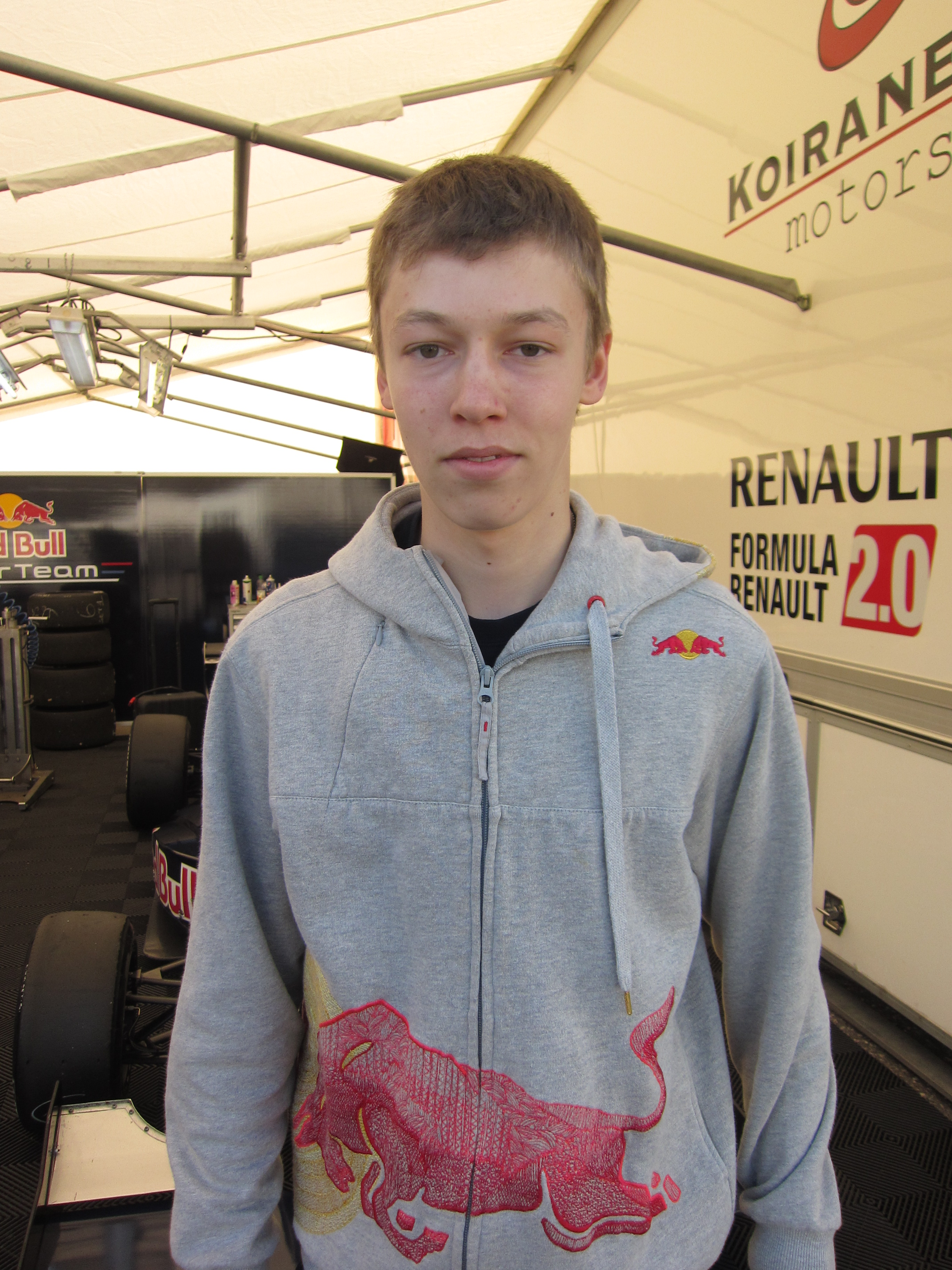 Daniil Kvyat: the photo was taken during 2011's Preis der Stadt Stuttgart (= Prix of the town Stuttgart) at Hockenheim